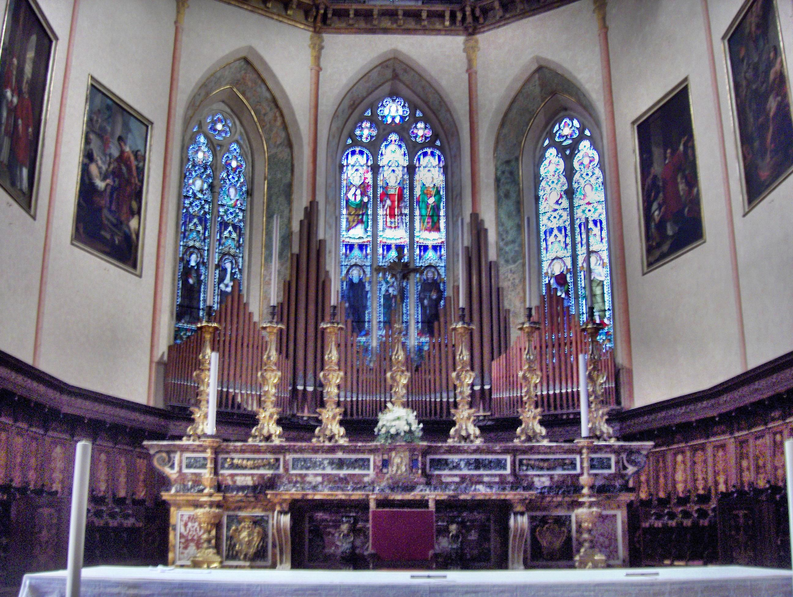 Apse and main altar of the cathedral of San Lorenzo, Perugia, Italy